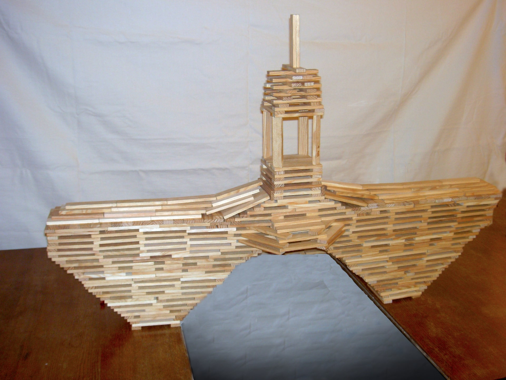 A picture of a building made of Kapla blocks.